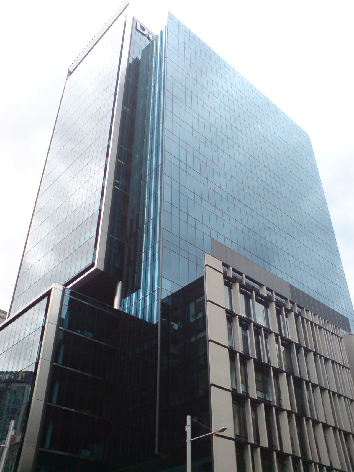 The Deloitte Centre in Auckland City, New Zealand.